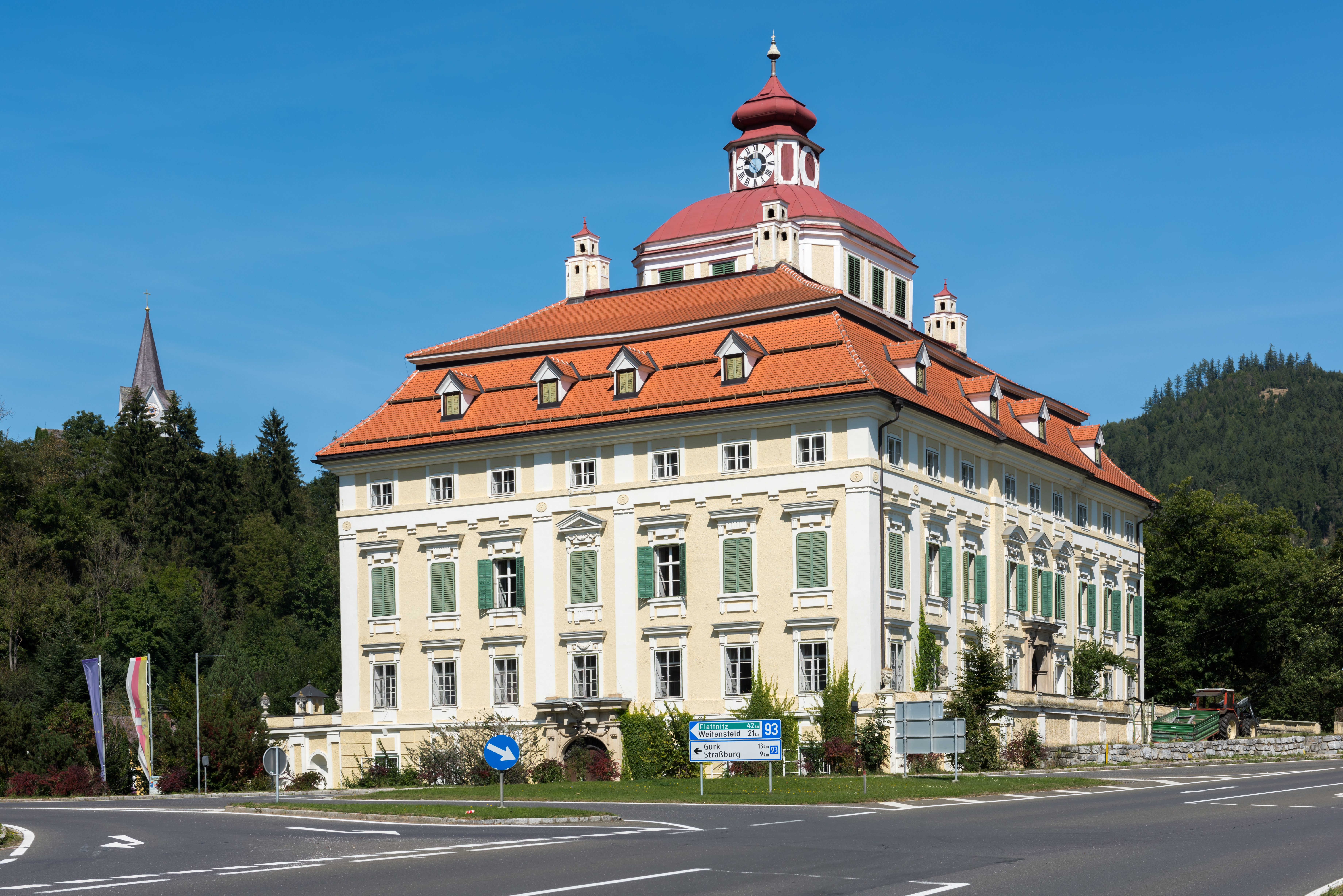 Castle Poeckstein in Poeckstein #1, municipality Straßburg (Kärnten), district Sankt Veit an der Glan, Carinthia, Austria, EU